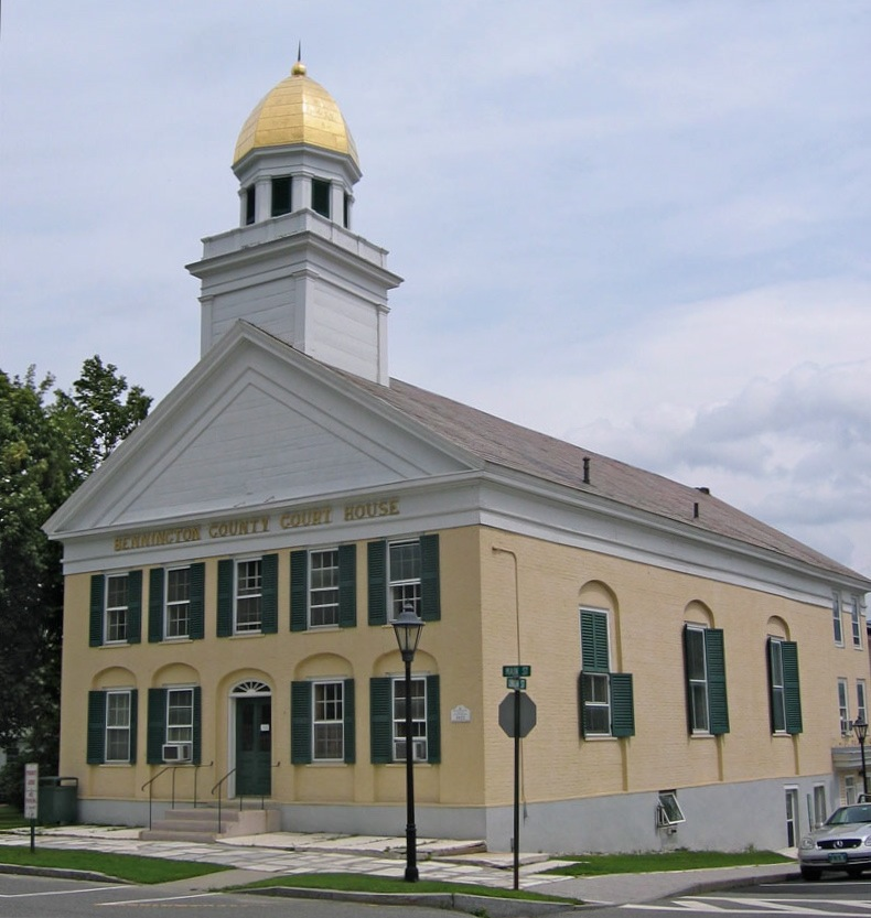 Description: Photograph of Bennington County court house, Manchester, Vermont Source: Photograph taken by Jared C. Benedict on 31 July 2004. Copyright: © Jared C. Benedict.